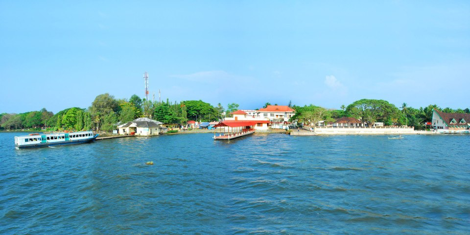 Vaikom Boat Jetty, KTDC Hotel